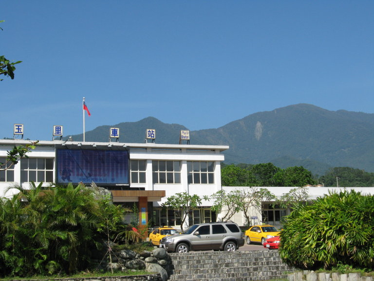 TRA Yuli Station. The picture right shows Yulishan.